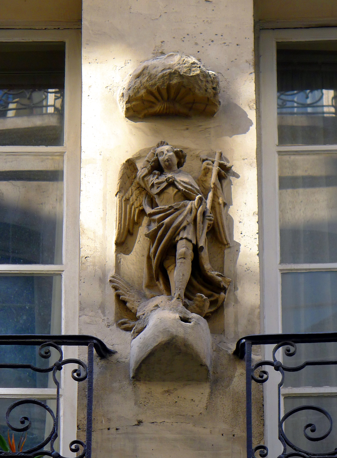 Bièvre street (St-Michel statue) - Paris